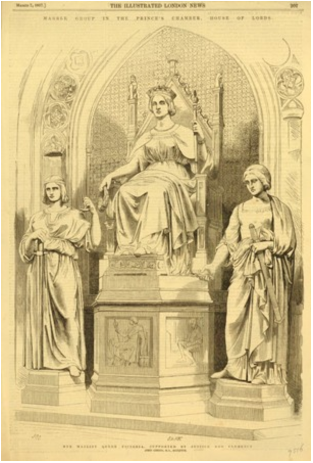 Her Majesty Queen Victoria, supported by Justice and Clemency by John Gibson, Parliament The Illustrated London News, 7 March 1857